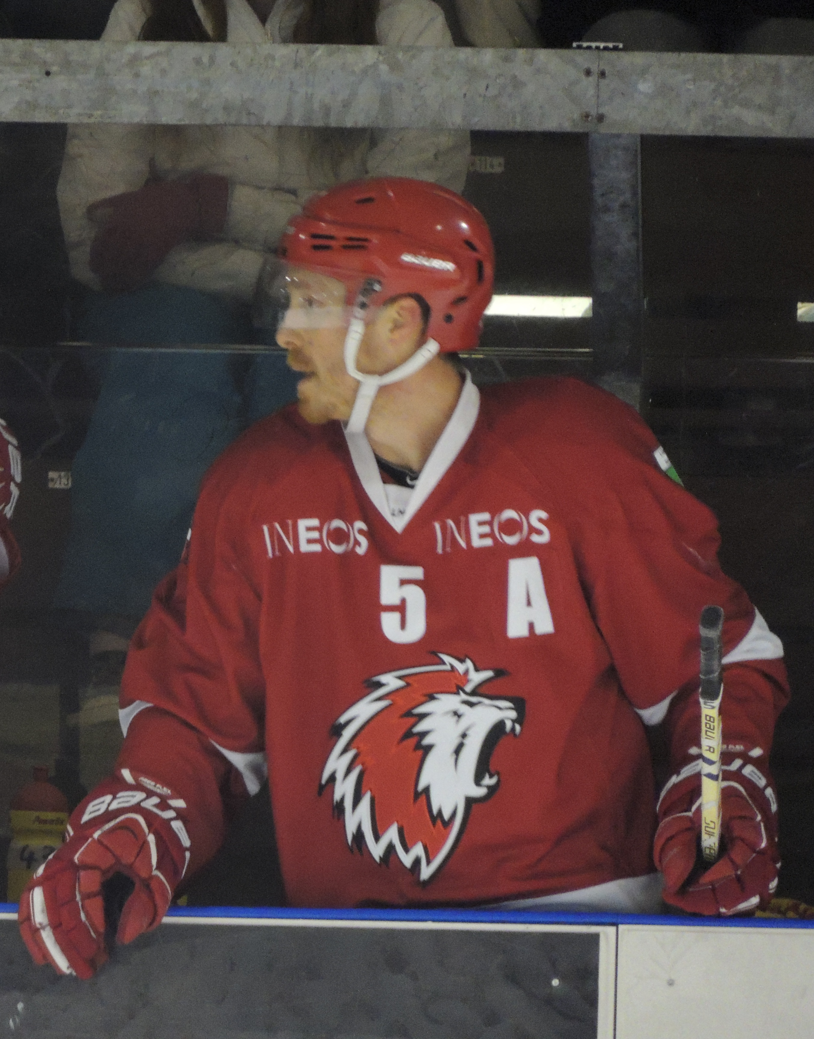 Colby Genoway with LHC in Villars on February 21, 2014